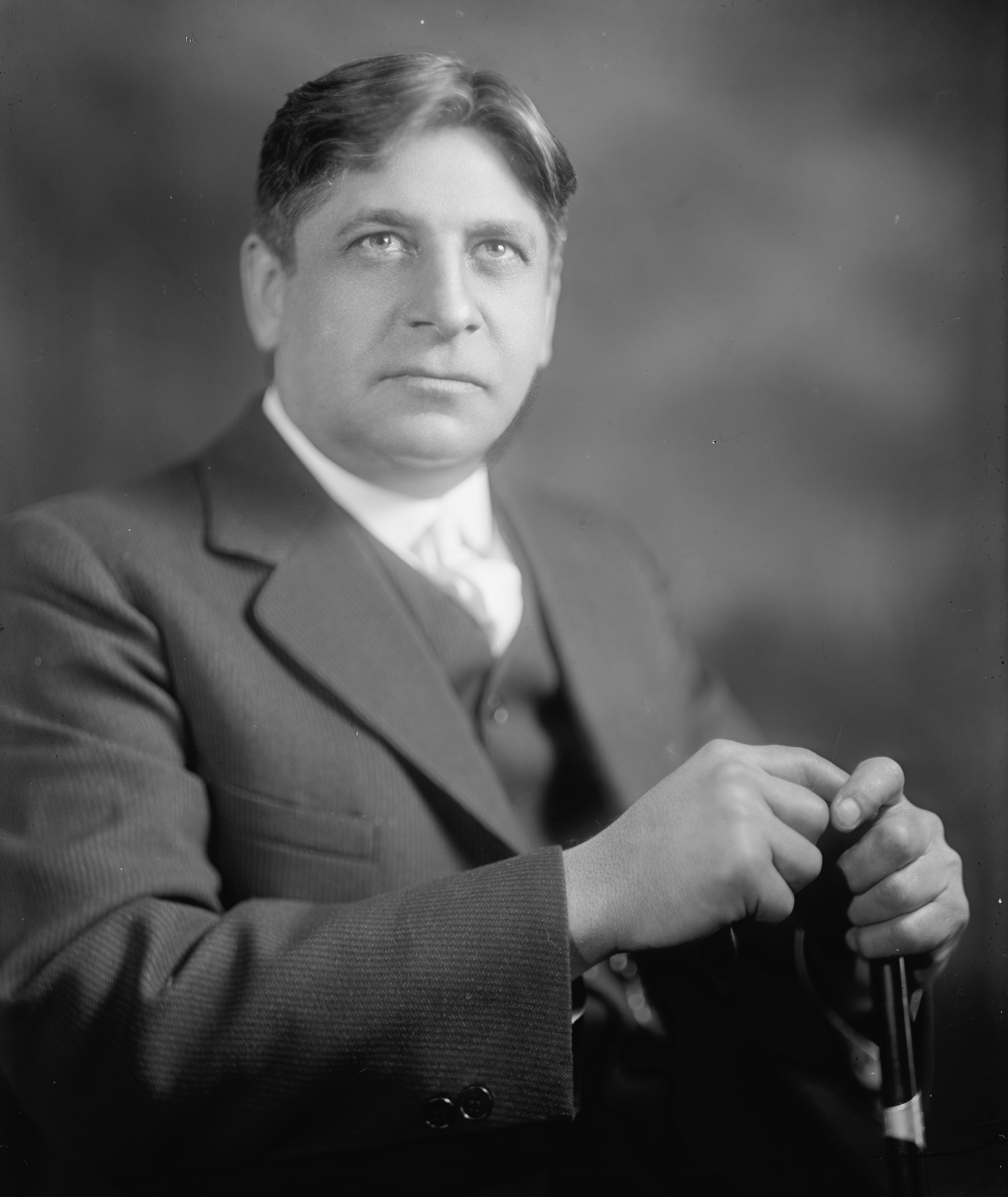 Title: SCHALL, THOMAS. HONORABLE Abstract/medium: 1 negative : glass ; 8 x 10 in. or smaller